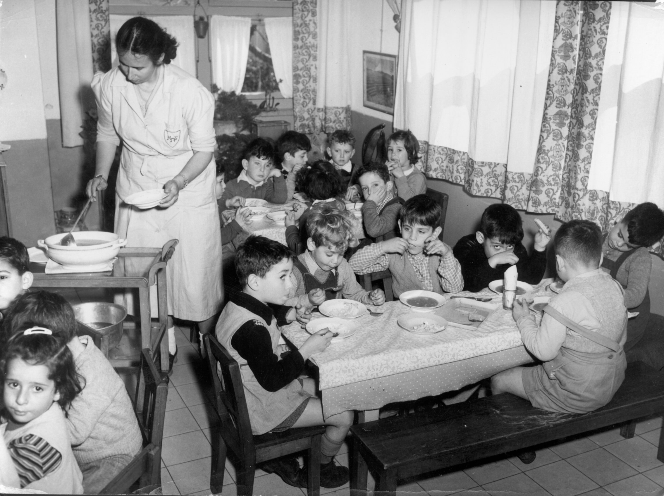 Normal life during wartime, life in the big city goes on as usual